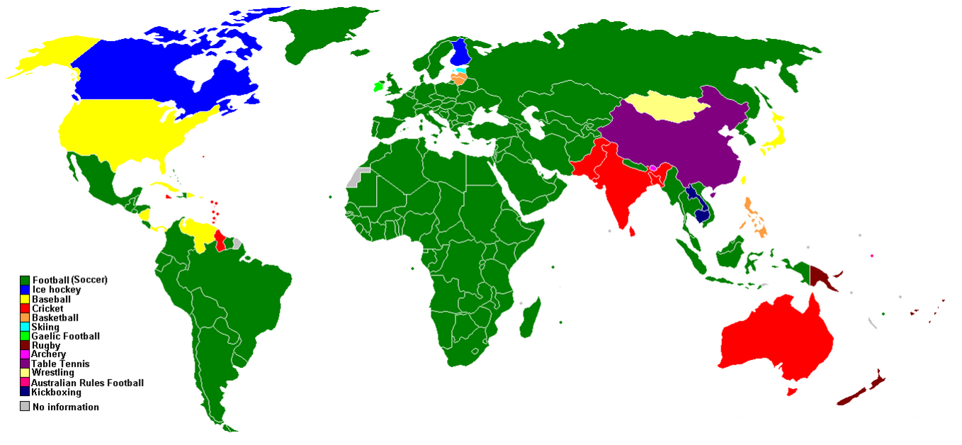 sports